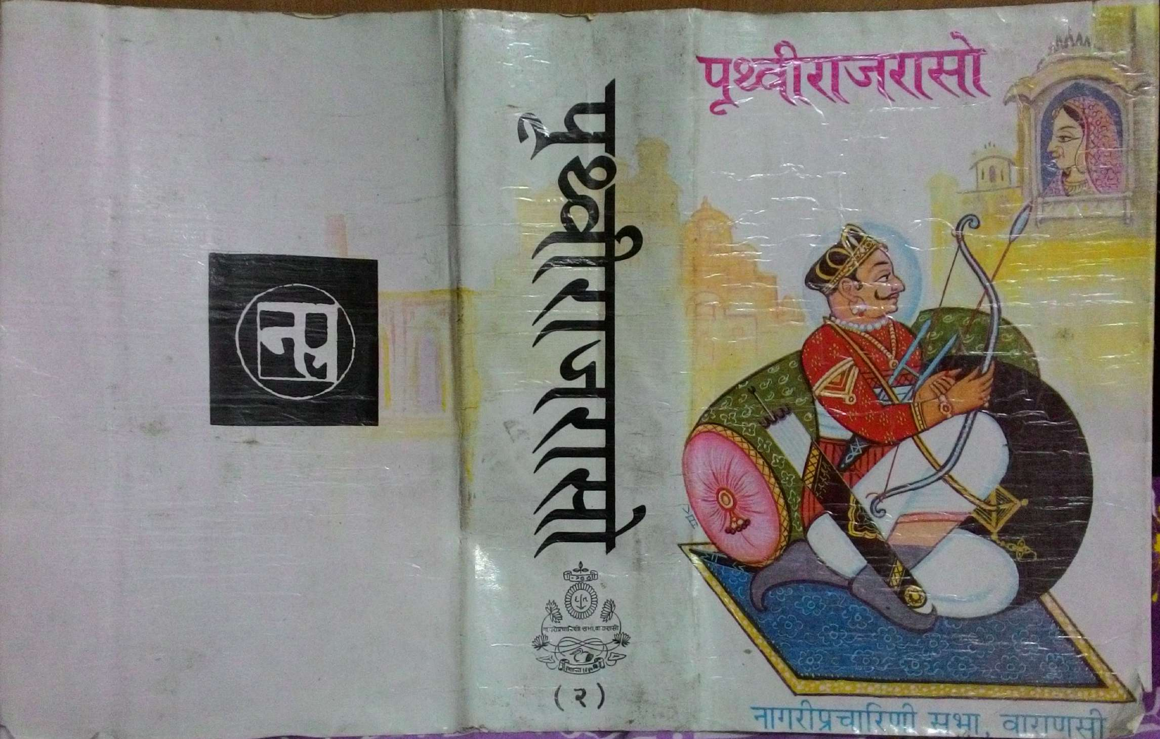 This is a copyright free book and cover is also free to fair uses.